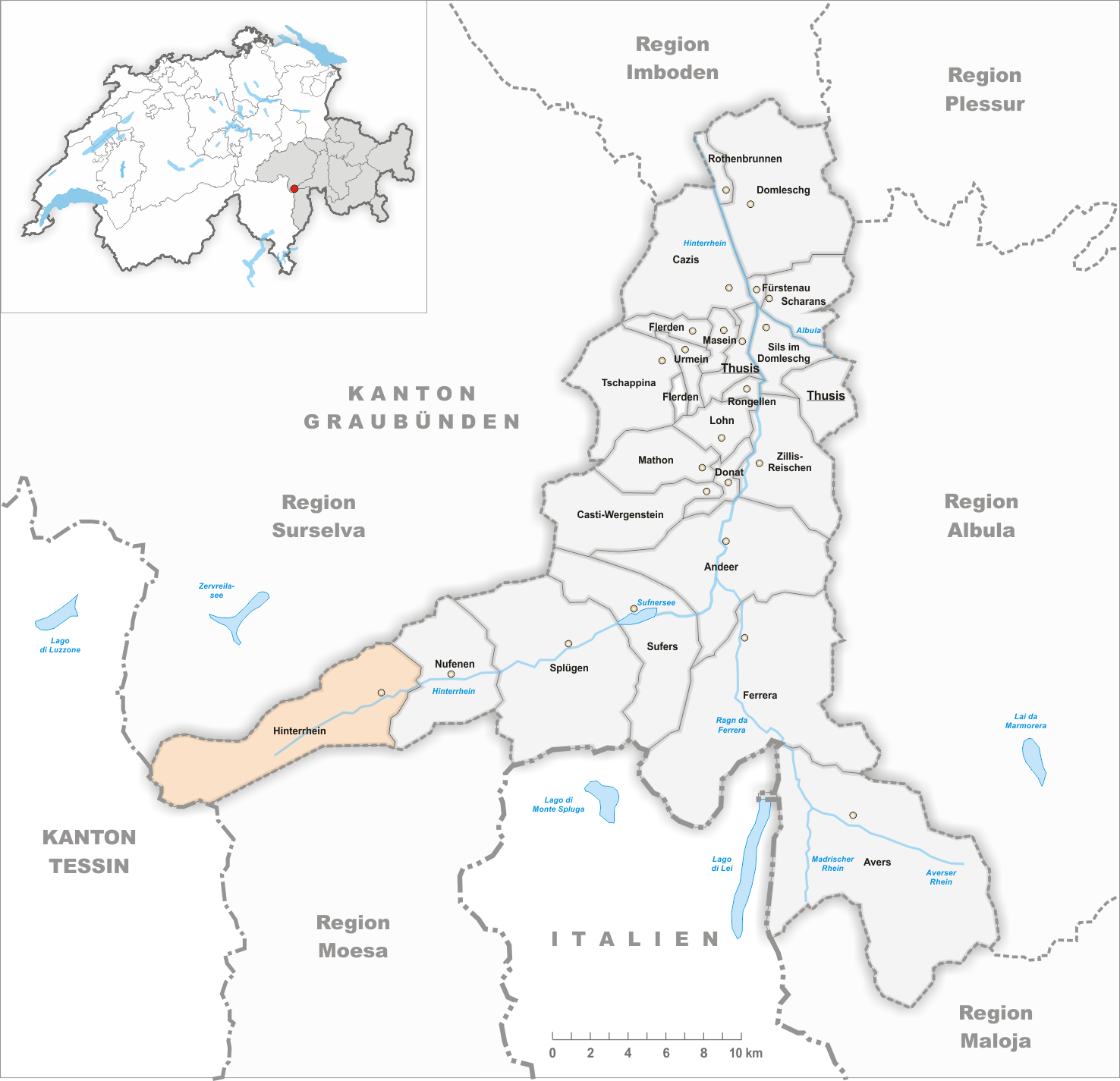 Municipality Hinterrhein